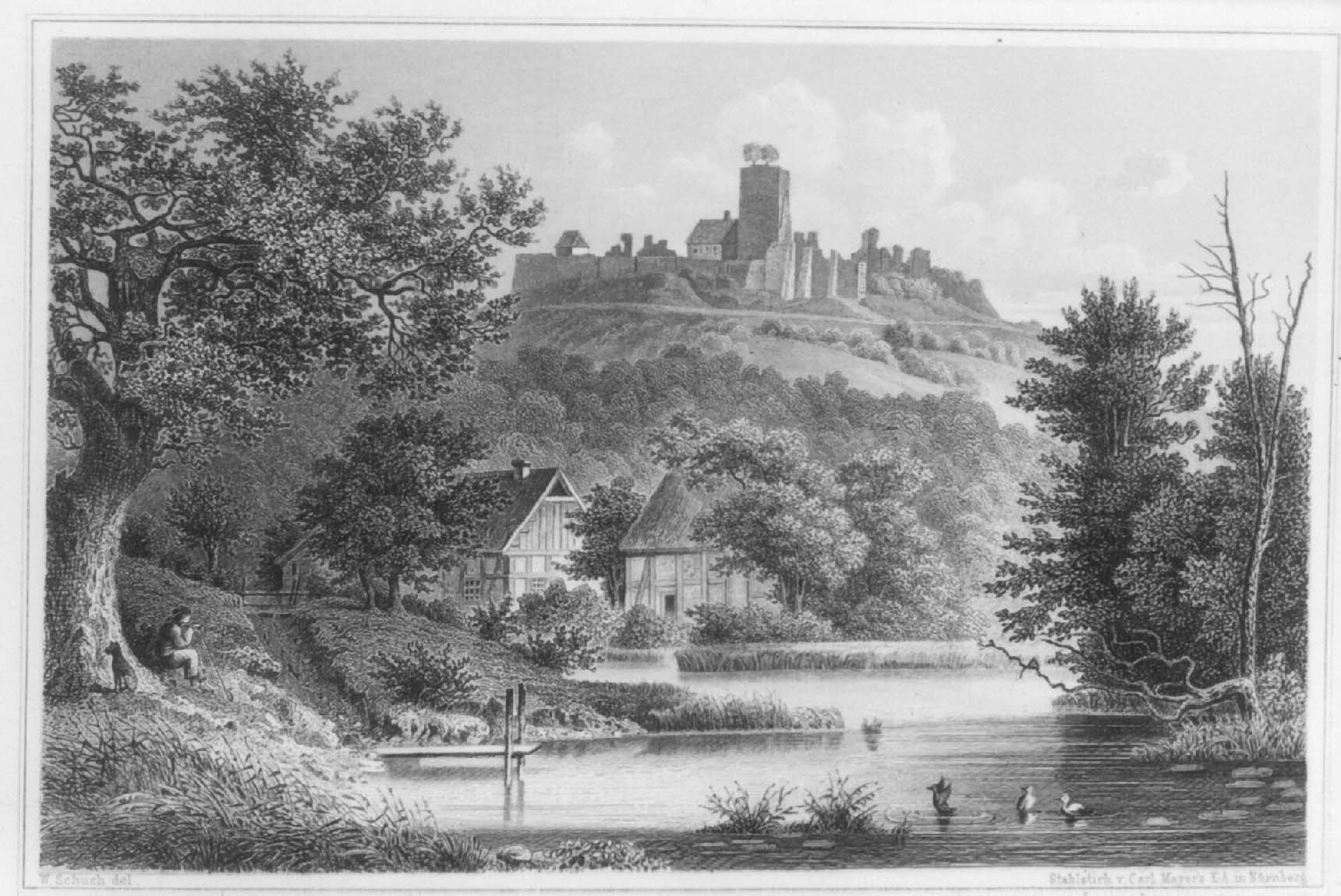 Stronghold Ravensberg, historic steel engraving of 1850; depicted point in time unknown